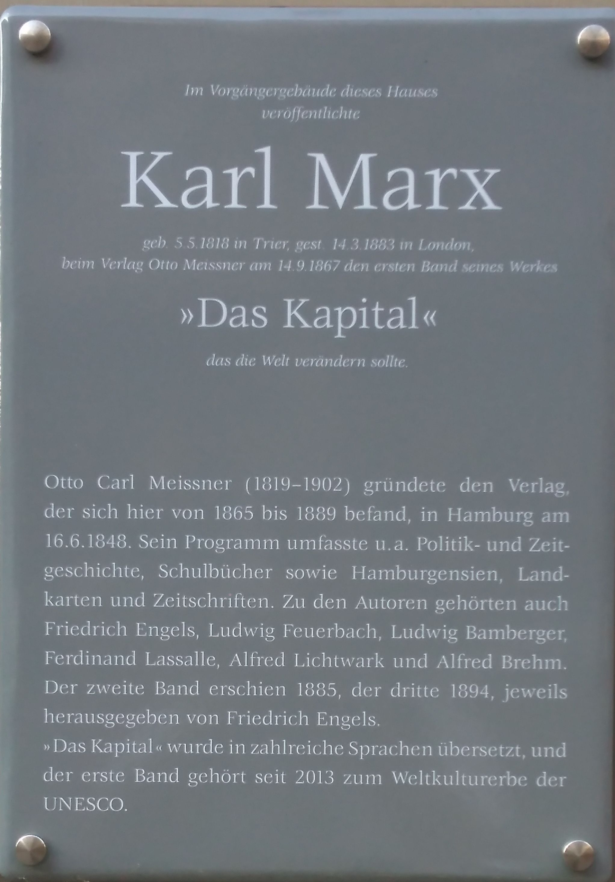 Commemorative plaque at the house, where "Das Kapital" first has been published in 1867